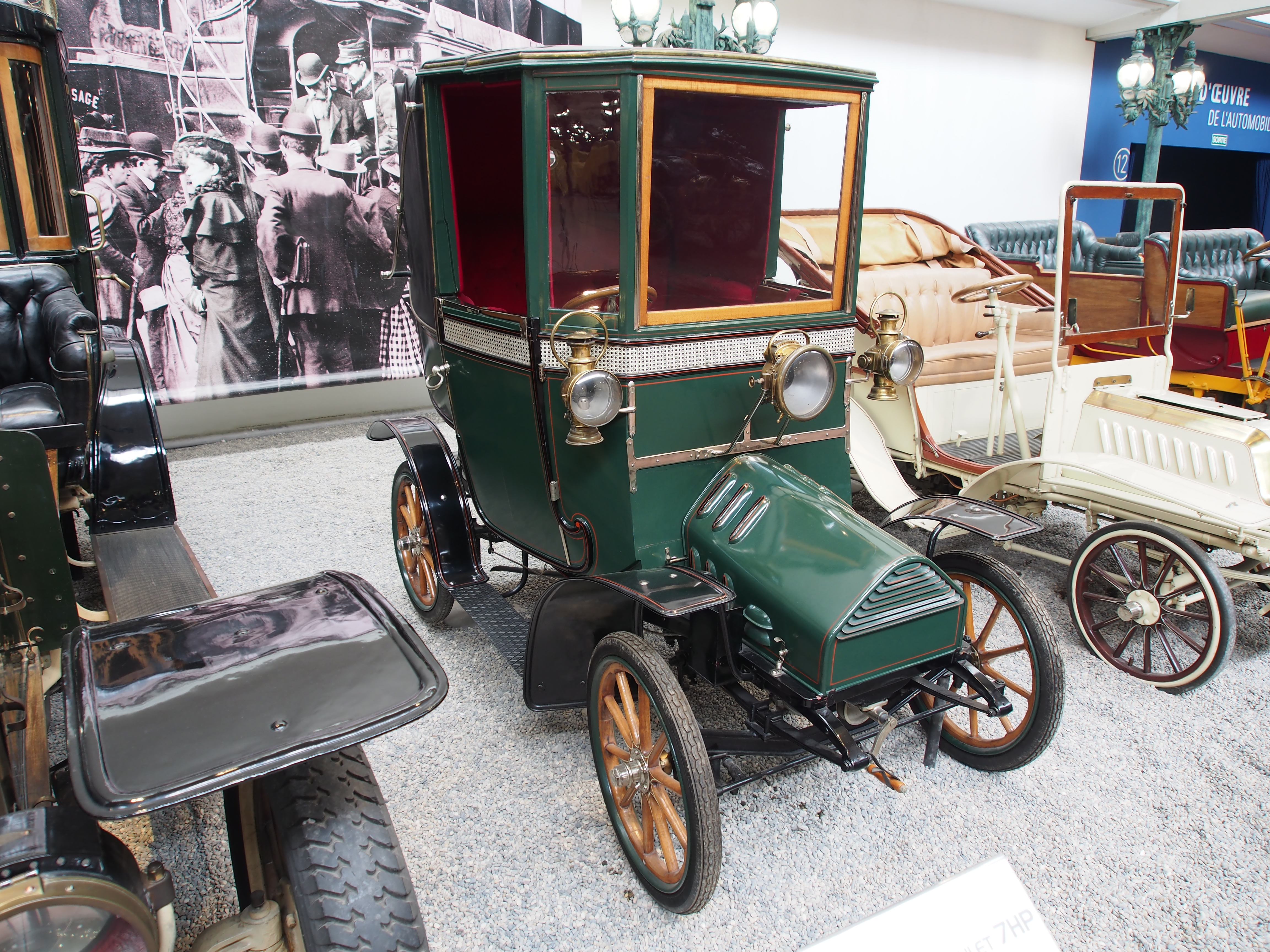 Photographed at the Cité de l'Automobile, France.